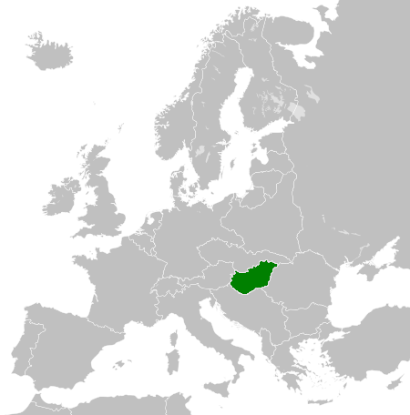 Kingdom of Hungary in Europe 1929